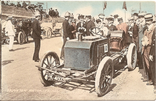 Hand coloured postcard image of Dorothy Levitt driving a Napier at he inaugural Brighton Speed Trial in 1905. Author unknown. Image/postcard was published in the UK over 100 years ago.